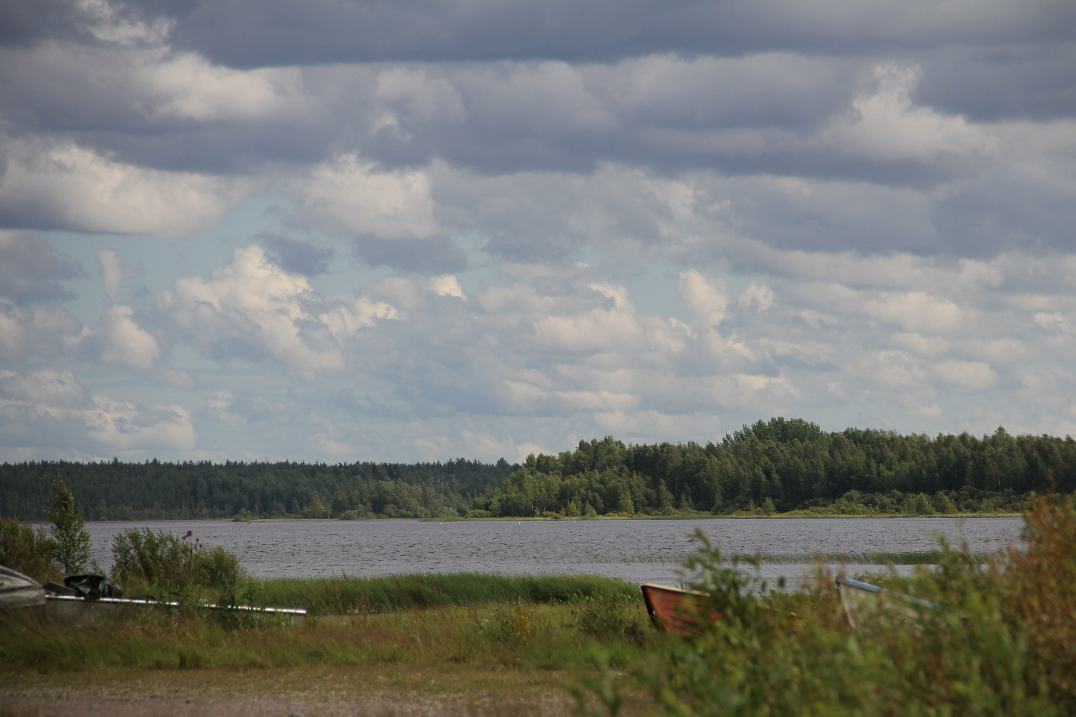 Saviselkä–Piippola Museum Road, Finland. -Vähä Lamujärvi -lake, Lamu, Siikalatva. A view to the lake from the museum road.